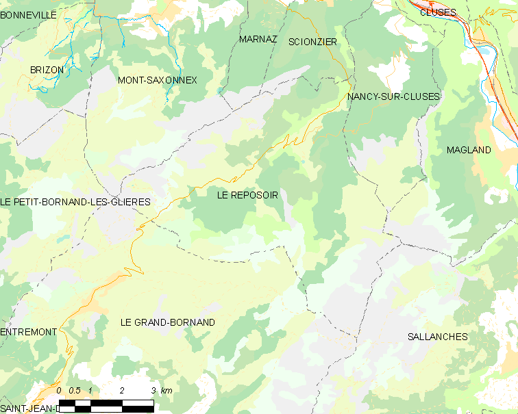 Map of French municipality Le Reposoir